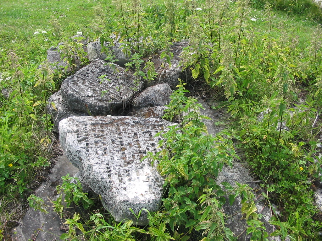 Jewish gravestone at Jewish cemetery in the town of Voynyliv (ukr. Войнилів, pol. Wojnilow - Wojniłów , rus. Войнилов - Voynilov) in Kalush district, Ivano-Frankivsk Oblast, western Ukraine.